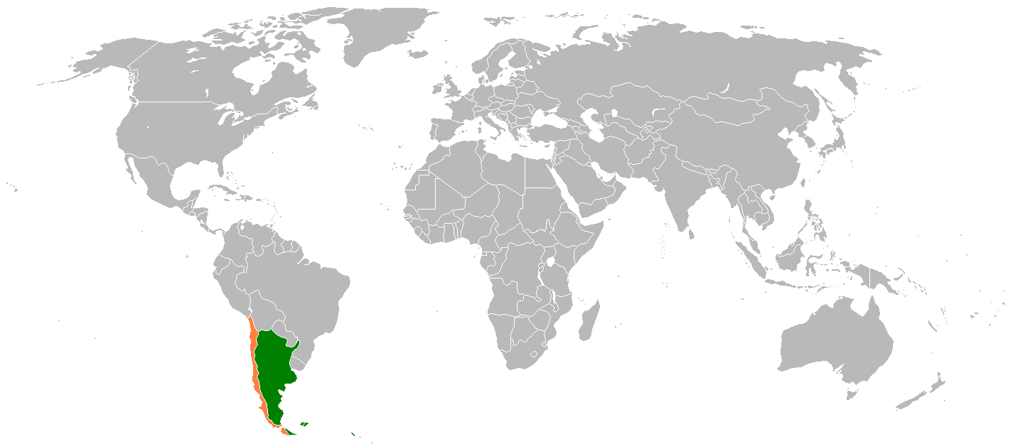 Argentina-Chile